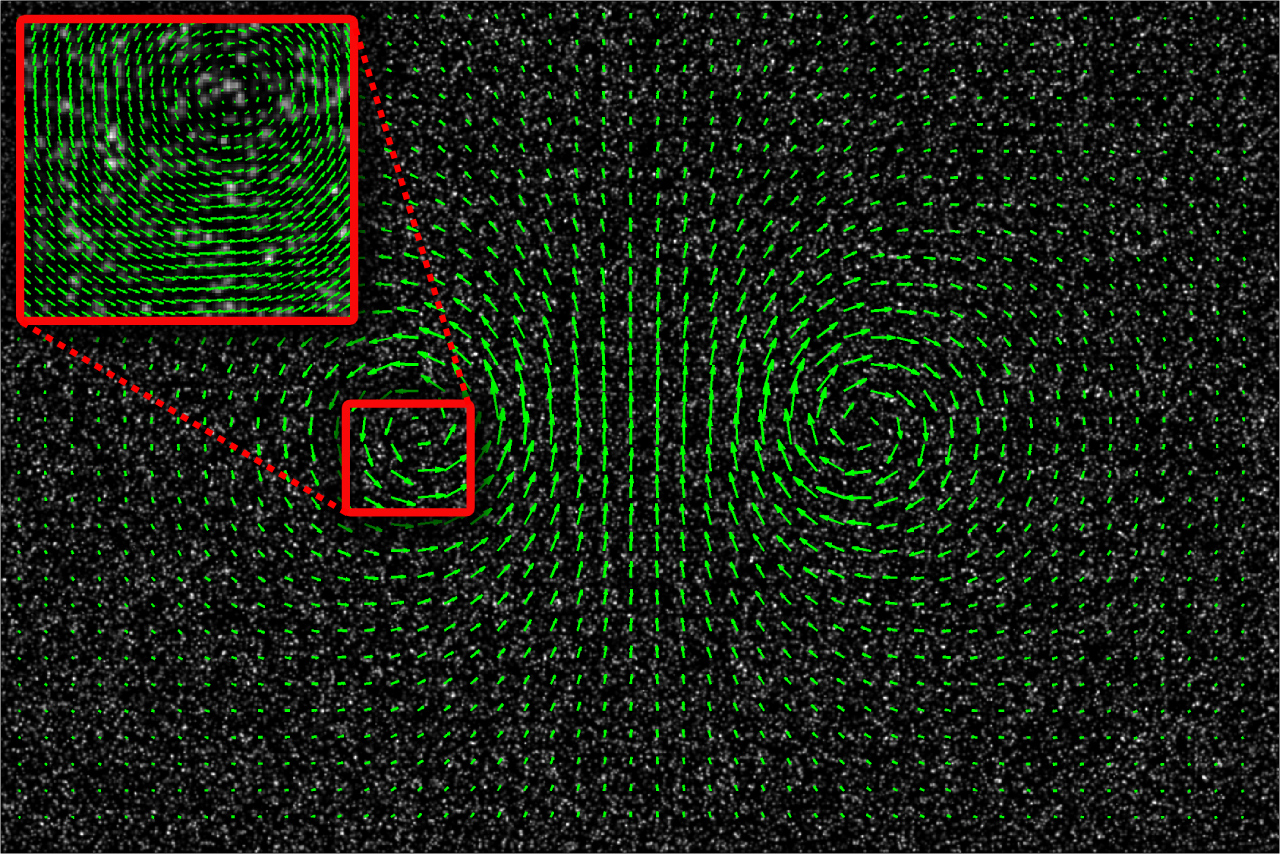 Particle Image Velocimetry (PIV) analysis of a Hamel-Oseen vortex pair. The upper left corner is a magnification, showing the increase in spatial resolution that can be achieved using a multi-pass, multi-grid, window deformation technique. Analyzed with the open-source tool PIVlab .